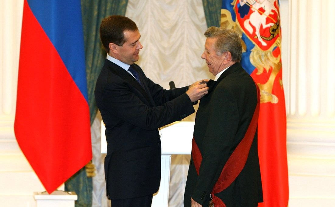 Yevgeniy Ivanovich Chazov (born June 10, 1929) is a prominent physician of the Soviet Union and Russia, specializing in cardiology, Director of the fourth department of ministry of health of the Soviet Union, Academician of the Russian Academy of Sciences and Russian Academy of Medical Sciences, a recipient of numerous awards and decorations, Soviet, Russian, and foreign.